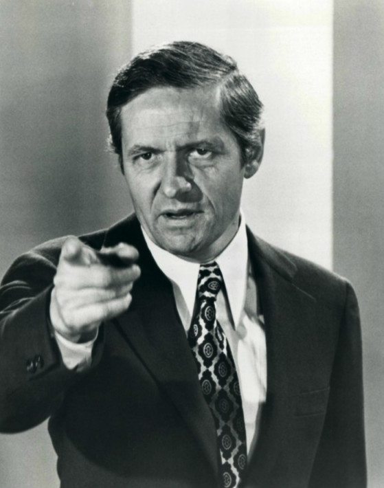 Photo of Arthur Hill as Owen Marshall.